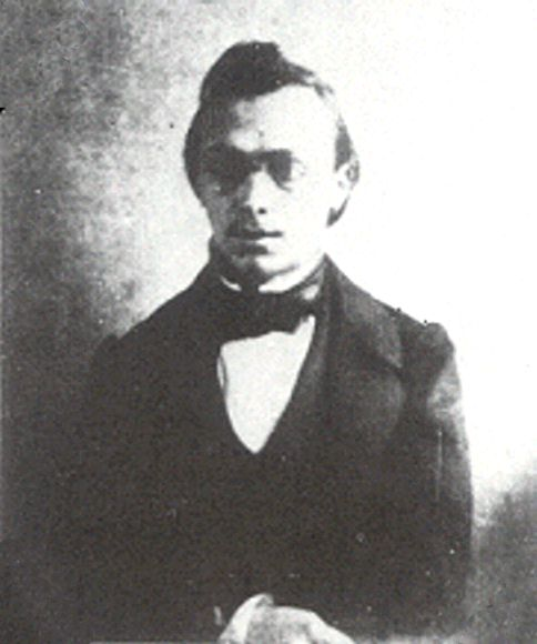 Johannes Bosscha jr. ca. 1860